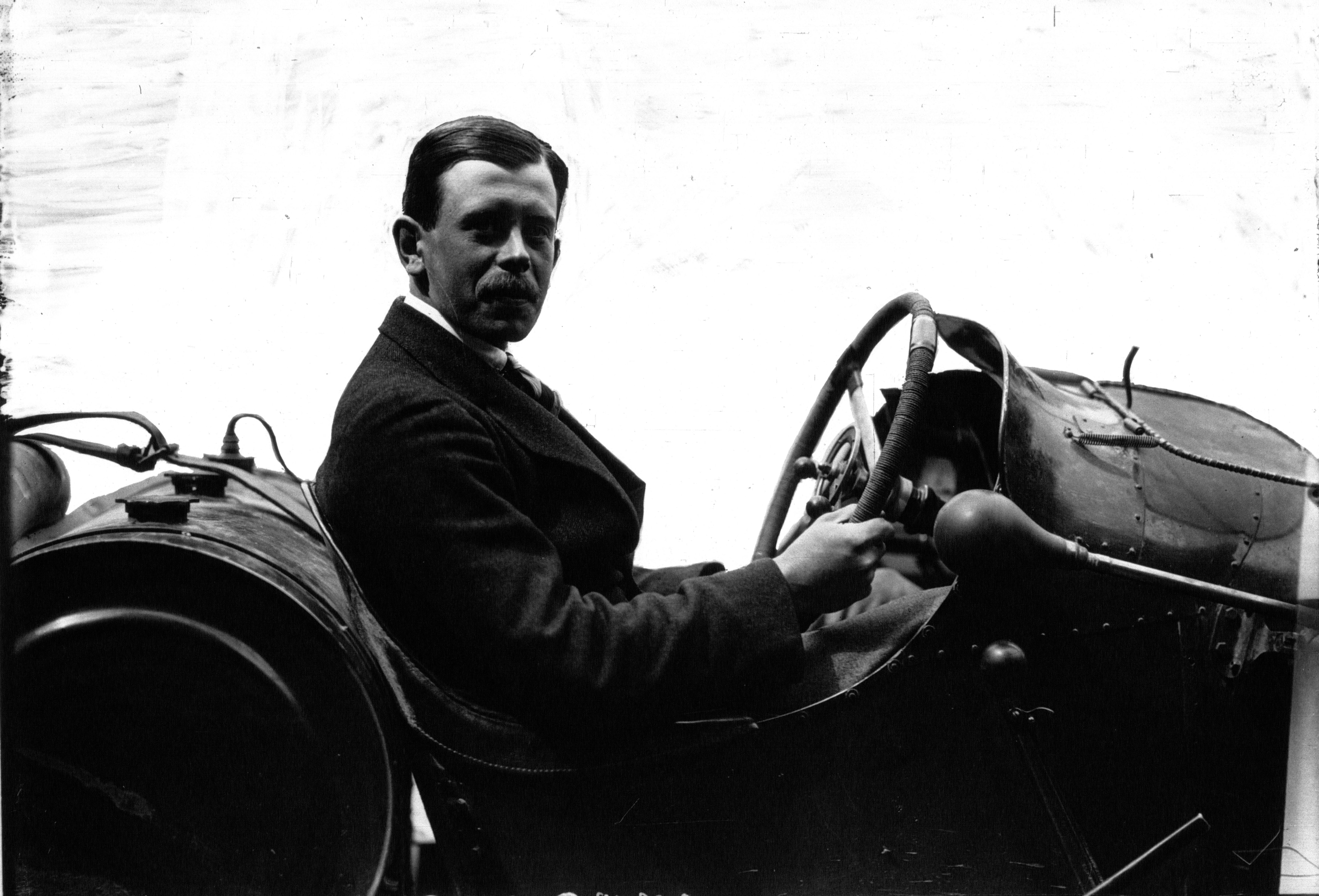 Kenelm Lee Guinness in his Sunbeam the 1913 French Grand Prix at Amiens.